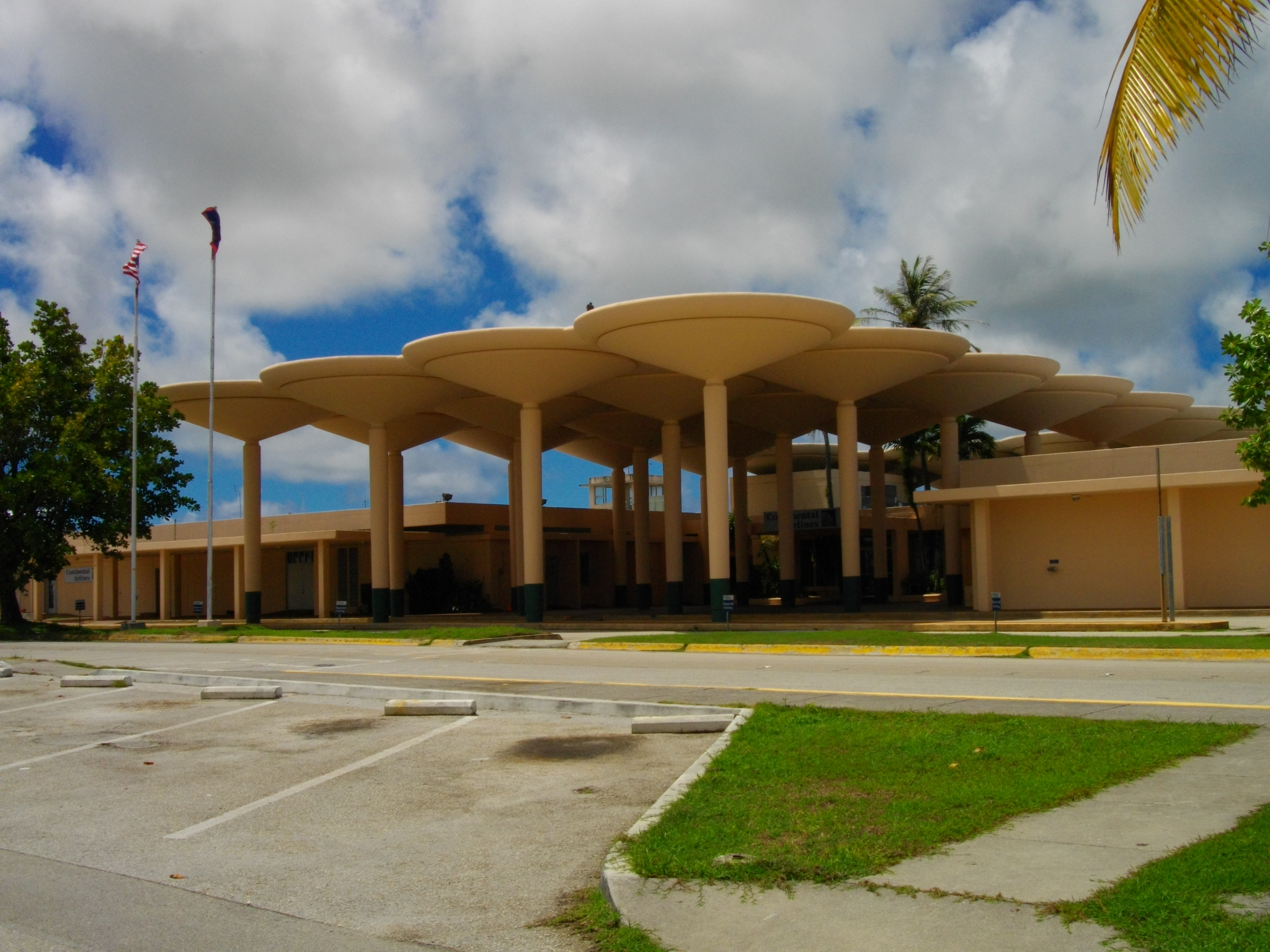 Guam International Airport Old Terminal Building - Continental Micronesia headquarters